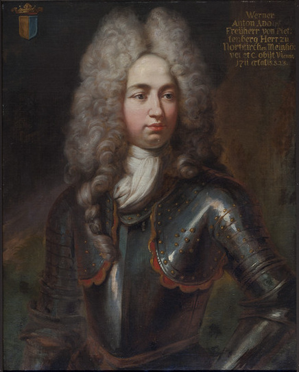 Ölgemälde des Werner Anton von Plettenberg (1688–1711) im Speisesaal von Schloss Nordkirchen